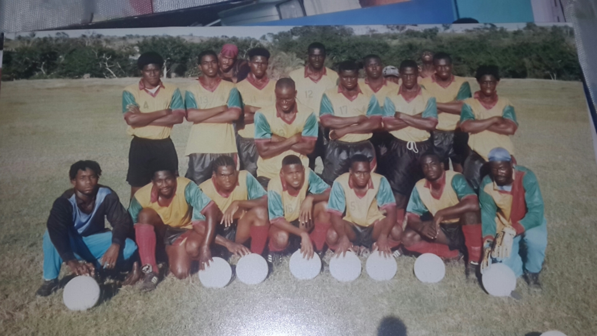 Successful Team of 1998